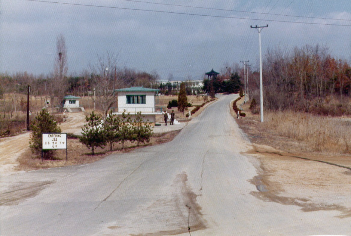 A picture from CP#2, just outside the actual boundary of the Korean Joint Security Area, looking towards KPA#7, KPA#6, and the Sunken Garden.